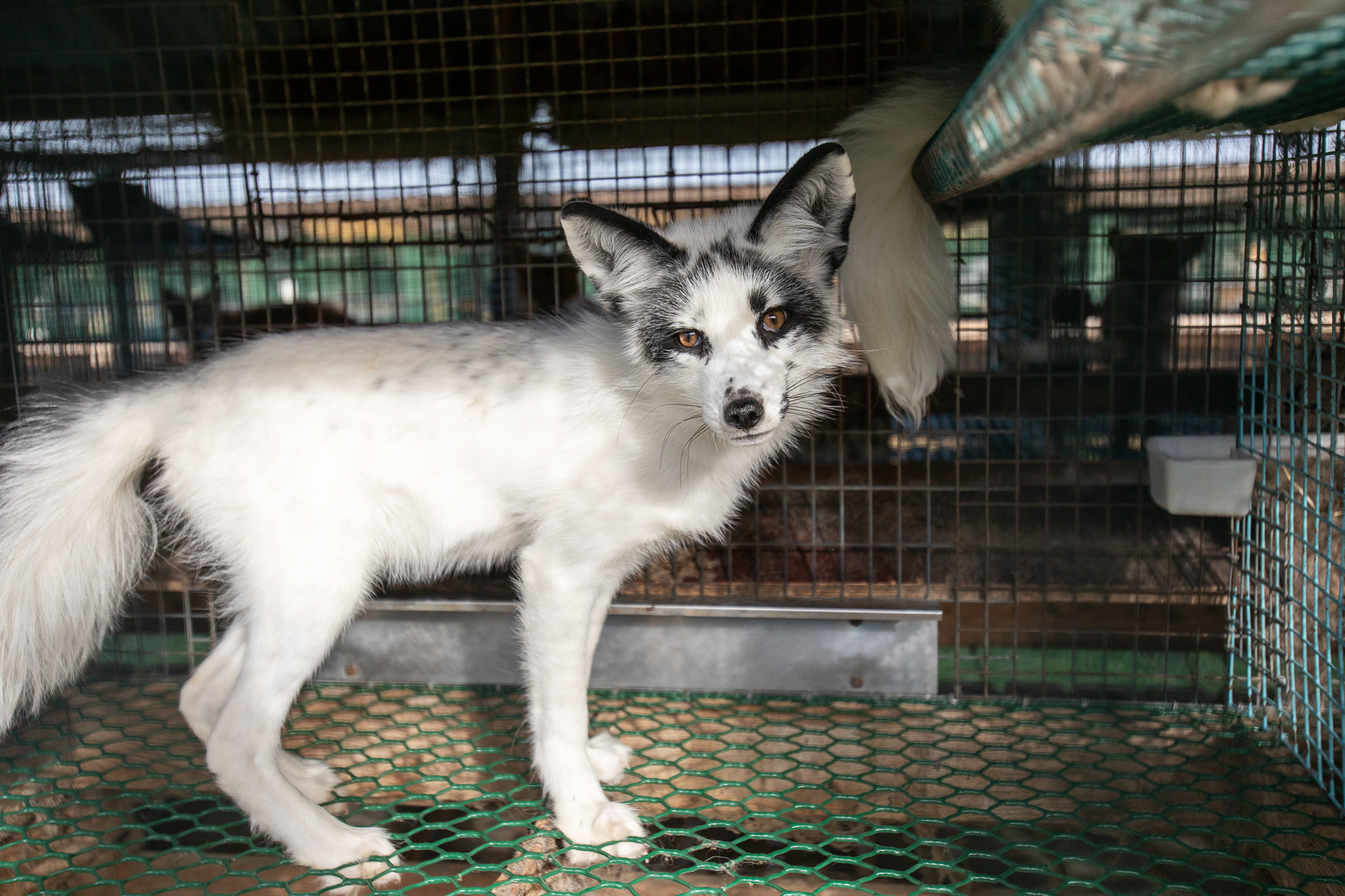 Young silver fox